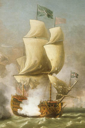 In this painting, created half a century after the event, the action is shown at about 4 o'clock. Byng's flagship the 'Barfleur', 90 guns, is prominently depicted firing her starboard broadside, in starboard-bow view left of centre, into the 'San Luis', 60 guns. On the right, the principal Spanish flagship, the 'Real San Felipe', 74 guns, is shown in starboard-broadside view being raked from the stern by the 'Superbe', 60 guns, and hauling down her flag. This fire is being returned by a Spanish rear-admiral in port-quarter view, and by another Spanish ship which is seen in port-bow view on the 'Barfleur's' quarter, almost obscured by smoke. To the left of this group a Spanish ship lies in starboard-quarter and broadside view, with her colours struck. To the left of her are the bows of an English ship beside a further prize. On the right of the painting, in the distance, another Spanish Rear-Admiral is sailing out of the picture, hotly engaged on both sides. Of the Spanish fleet, 16 were taken and seven burnt. The artist started his painting career as an assistant to a ship's painter on Sir Charles Knowles's ship, and he rose to become one of the principal painters of naval actions of the 18th century. The painting was exhibited at the Society of Artists in 1767 and 1768.